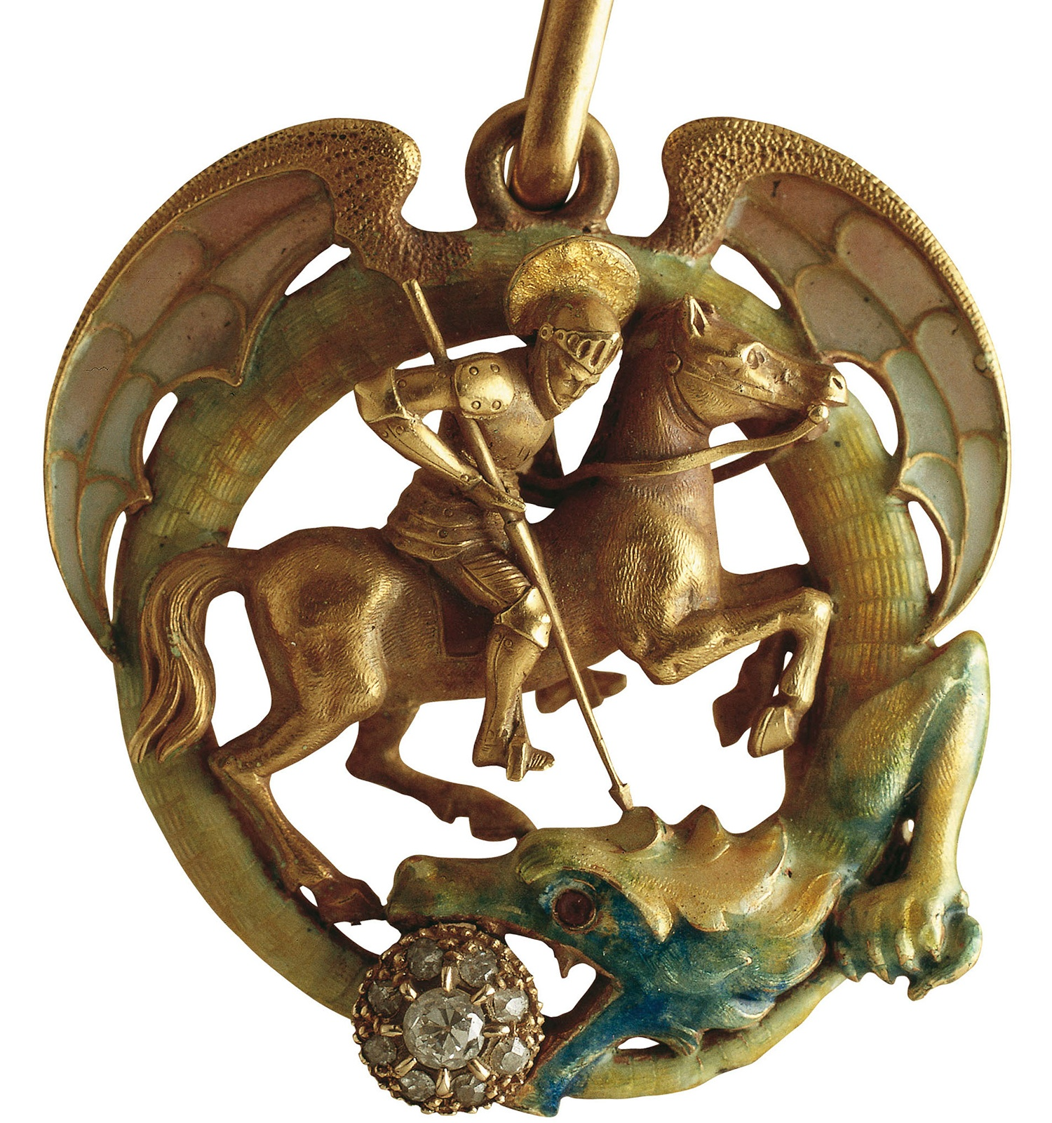 A pendant featuring Saint George slaying a dragon made by Lluís Masriera i Rosés and in the collection at the Museu Nacional d'Art de Catalunya.